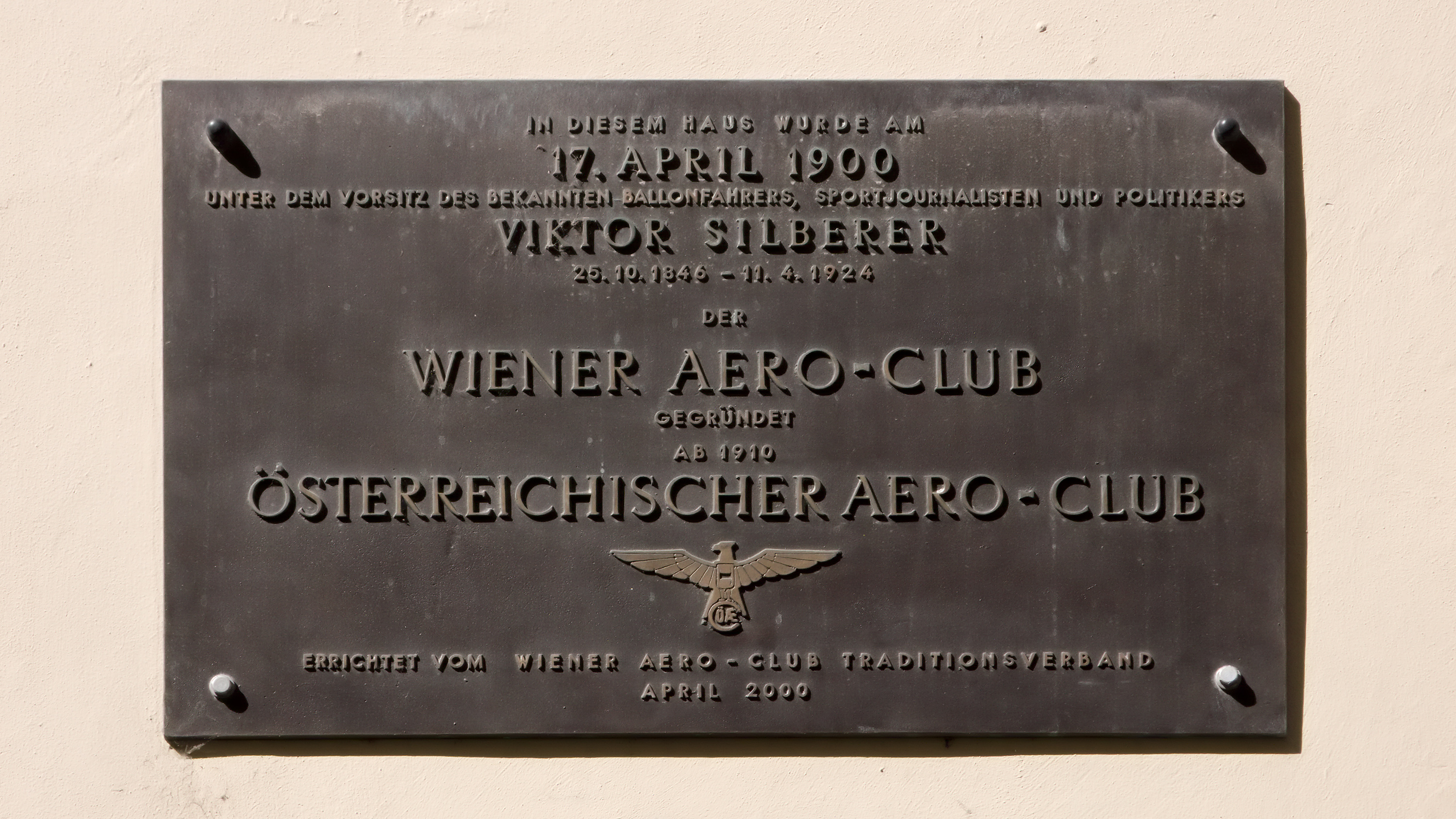 Annagasse in Vienna Inner City, Haus Nr.3a St. Annahof (Wien), Gedenktafel